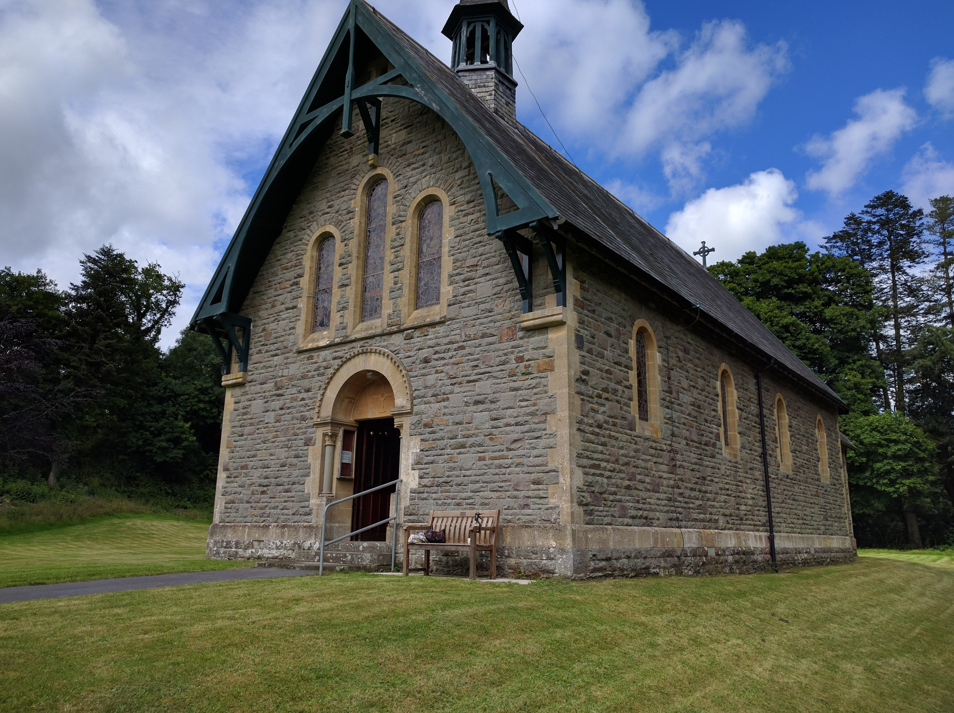 Church Of The Holy Trinity Wikidata has entry Q17742547 with data related to this item.